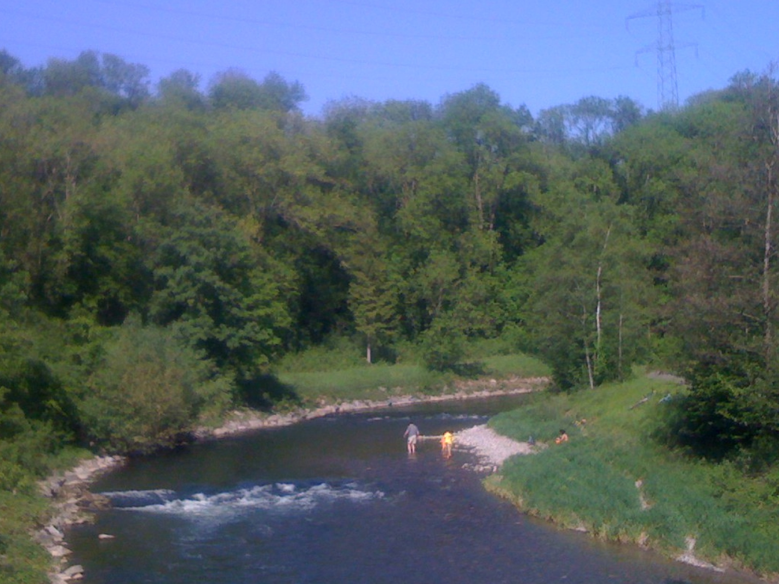 The river Glatt near Glattfelden, Zurich, Switzerland